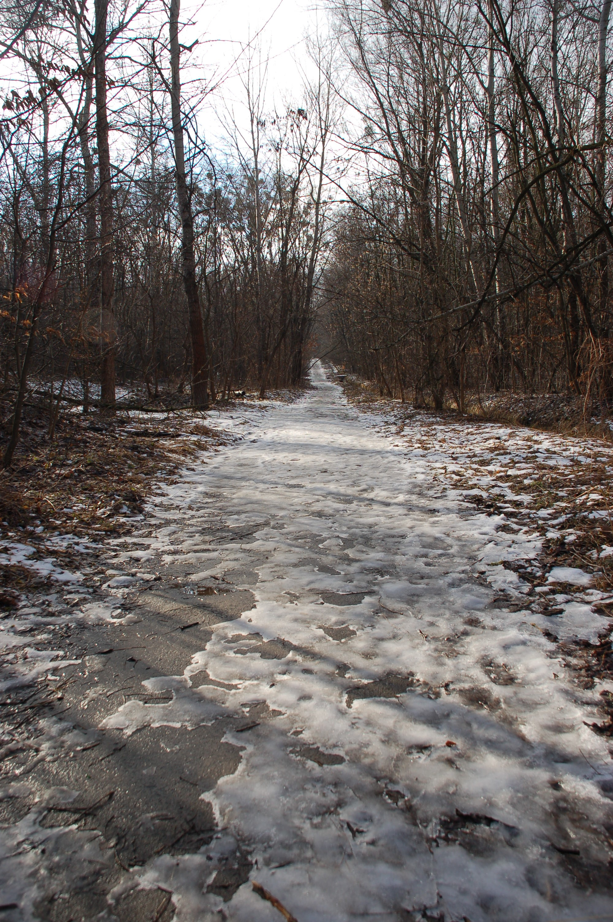 Alley in Babi Yar, Kiev